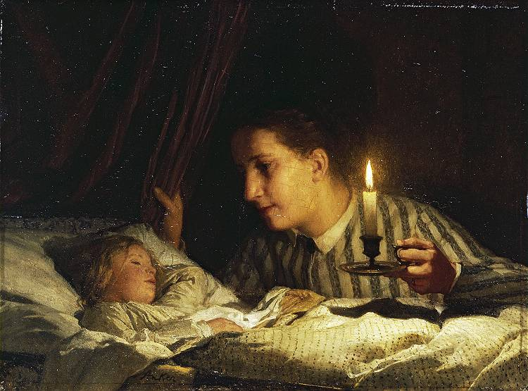 Young mother contemplating her sleeping child in candlelight